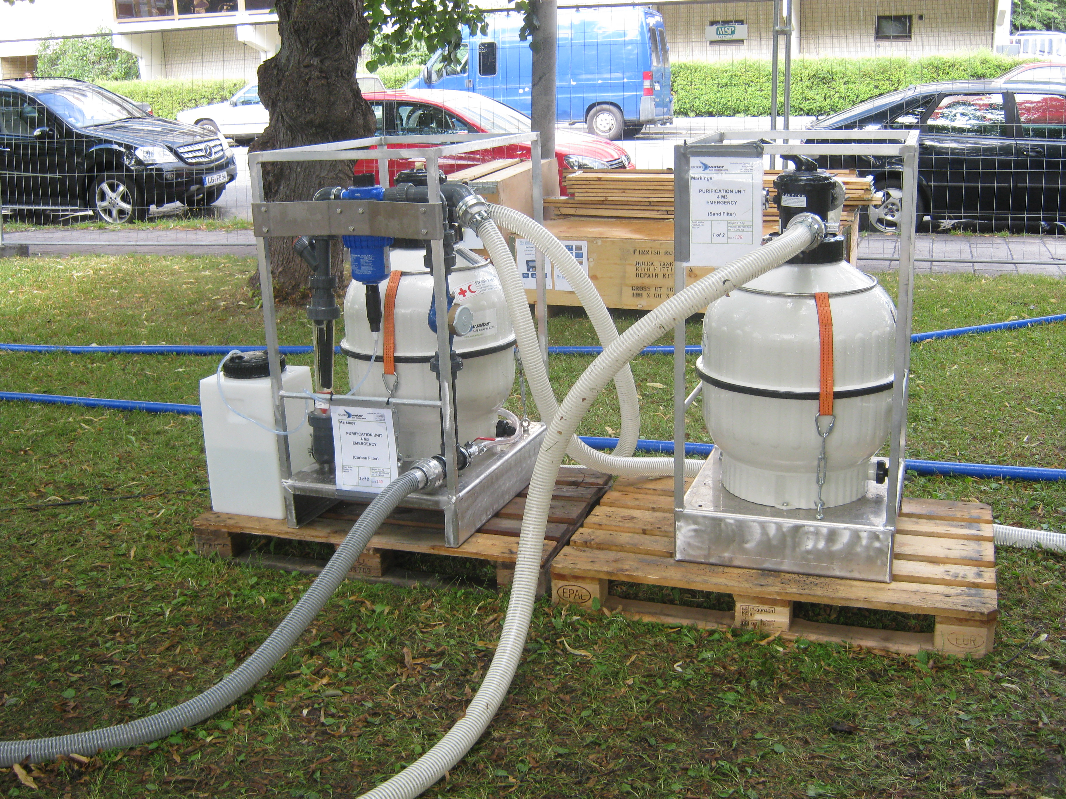 Portable water purification unit used by International Red Cross and Red Crescent. Shown at Pori, Finland.